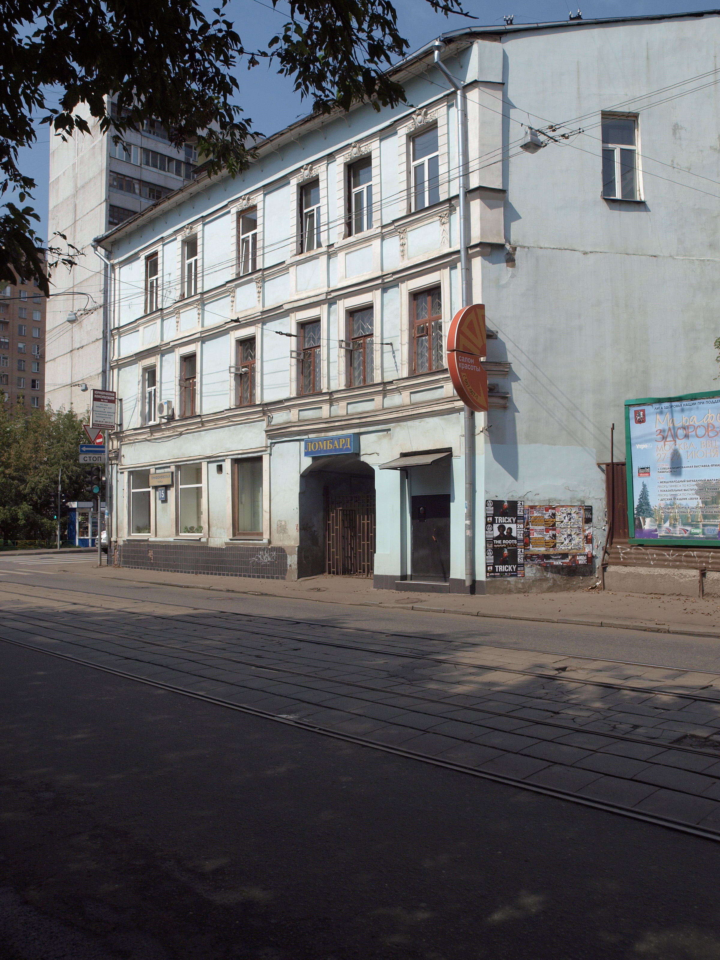 Corner of Trifonovskaya and Oktyabrskaya Streets, Moscow